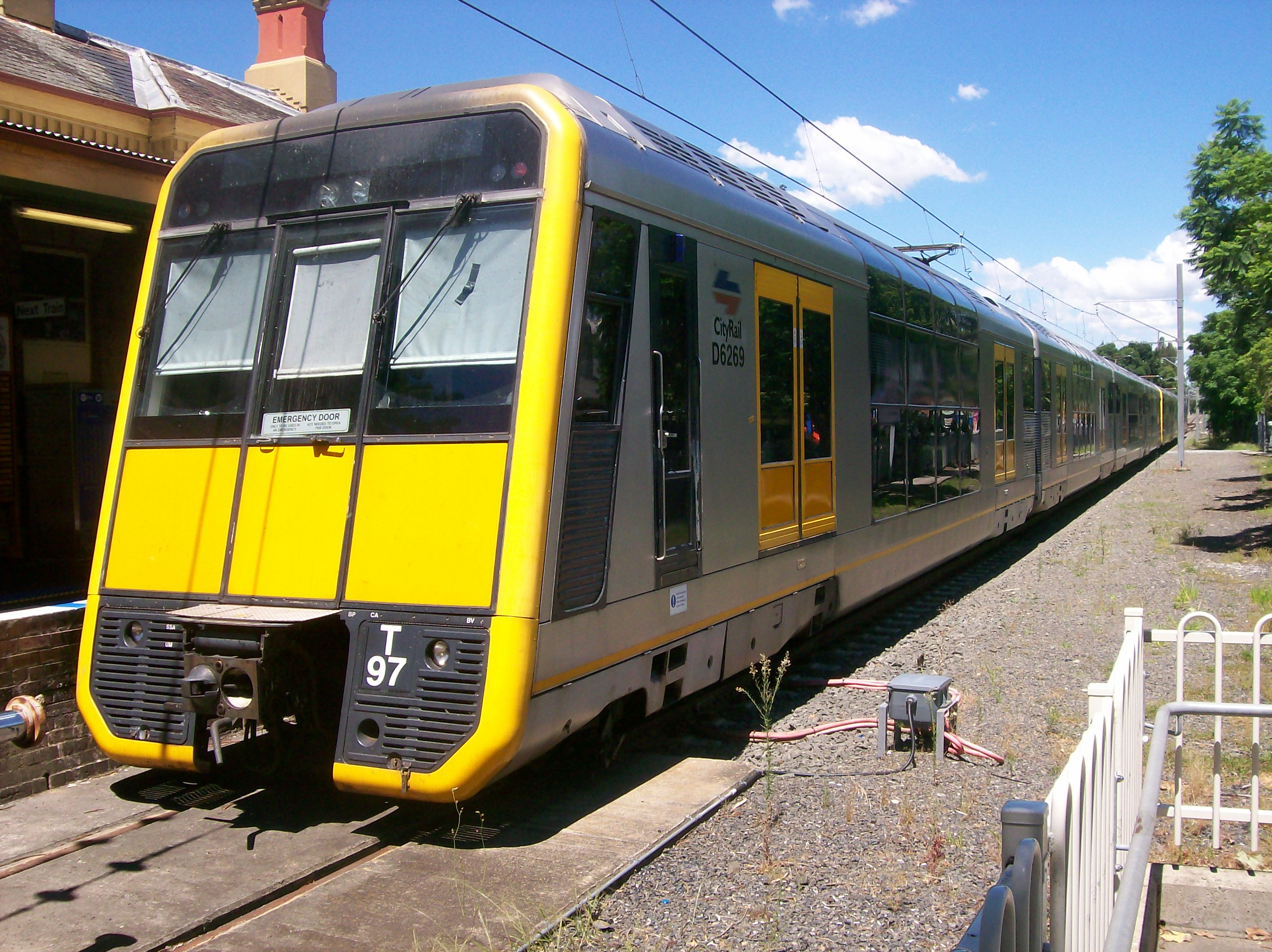 Richmond railway station Tangara on platform 2